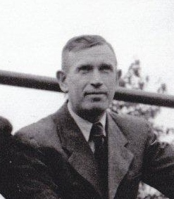 Kálmán Konrád (born 1896), Hungarian-Swedish football player and coach.